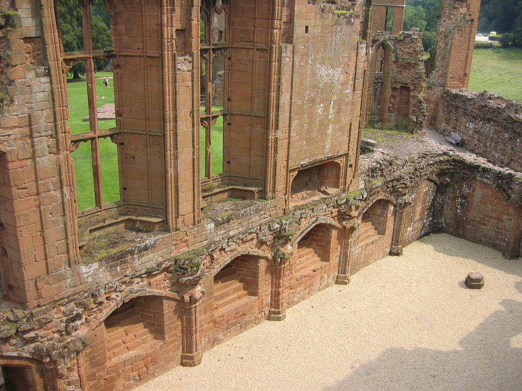 Gaunt's great hall in Kenilworth